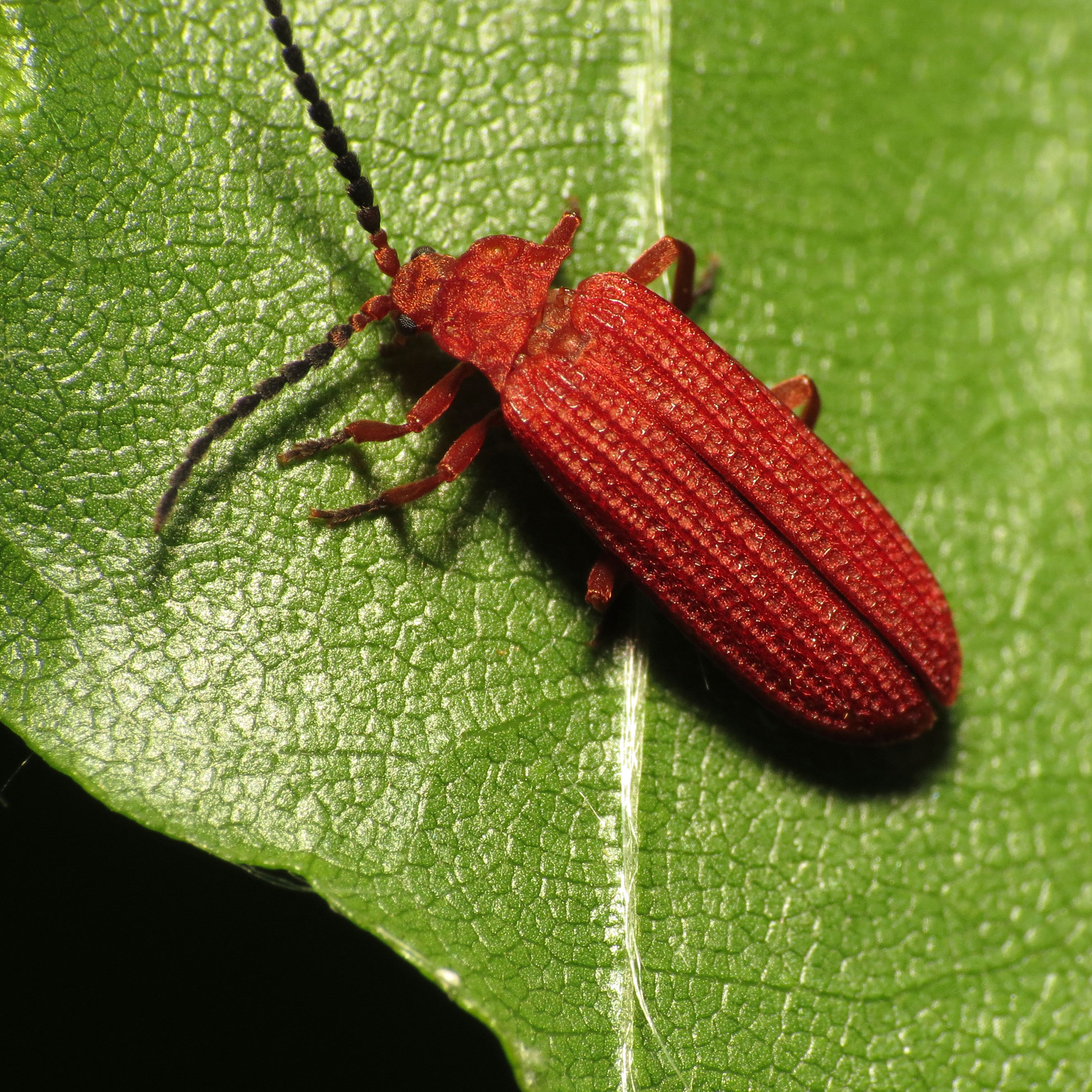 Dictyoptera mundus. Rock Creek Park, Washington, DC, USA. 17 May 2014.